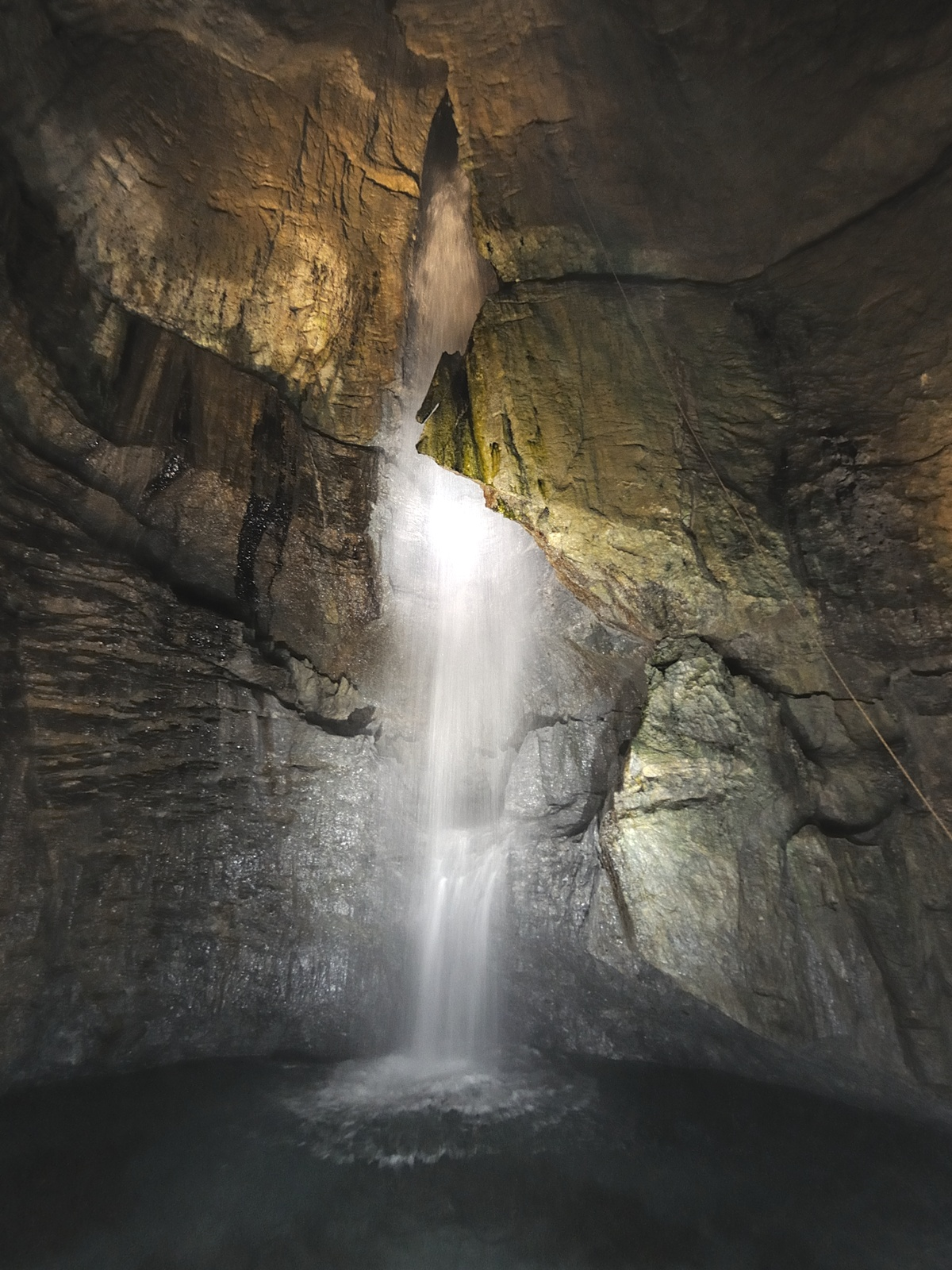 Photograph of Rokando Limestone Cave, Amanoiwato Falls, in Sumita Town, Iwate Prefecture, Japan.